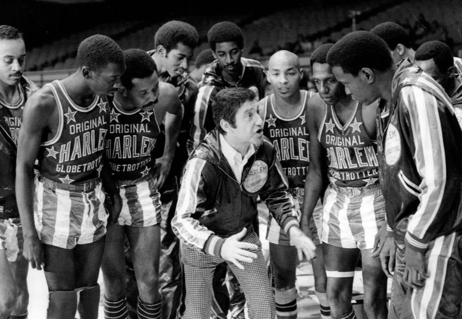 Photo of Soupy Sales and the Harlem Globetrotters from a 1969 television special in which Sales manages the team.